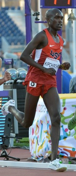 A scene from the 10,000-meter run at the 2015 Pan American Games in Toronto, where U.S. Army World Class Athlete Program runners Spc. Aaron Rono and Spc. Shadrack Kipchirchir finished second and fourth respectively. U.S. Army photo by Tim Hipps, IMCOM Public Affairs Source: United States Army Family and Morale, Welfare and Recreation directorate This image is a work of a U.S. Army soldier or employee, taken or made as part of that person's official duties. As a work of the U.S. federal government, the image is in the public domain.